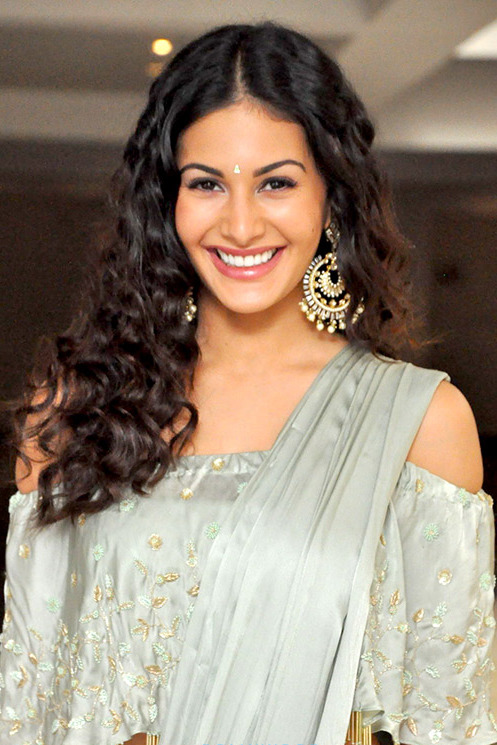 Amyra Dastur snapped during photoshoot